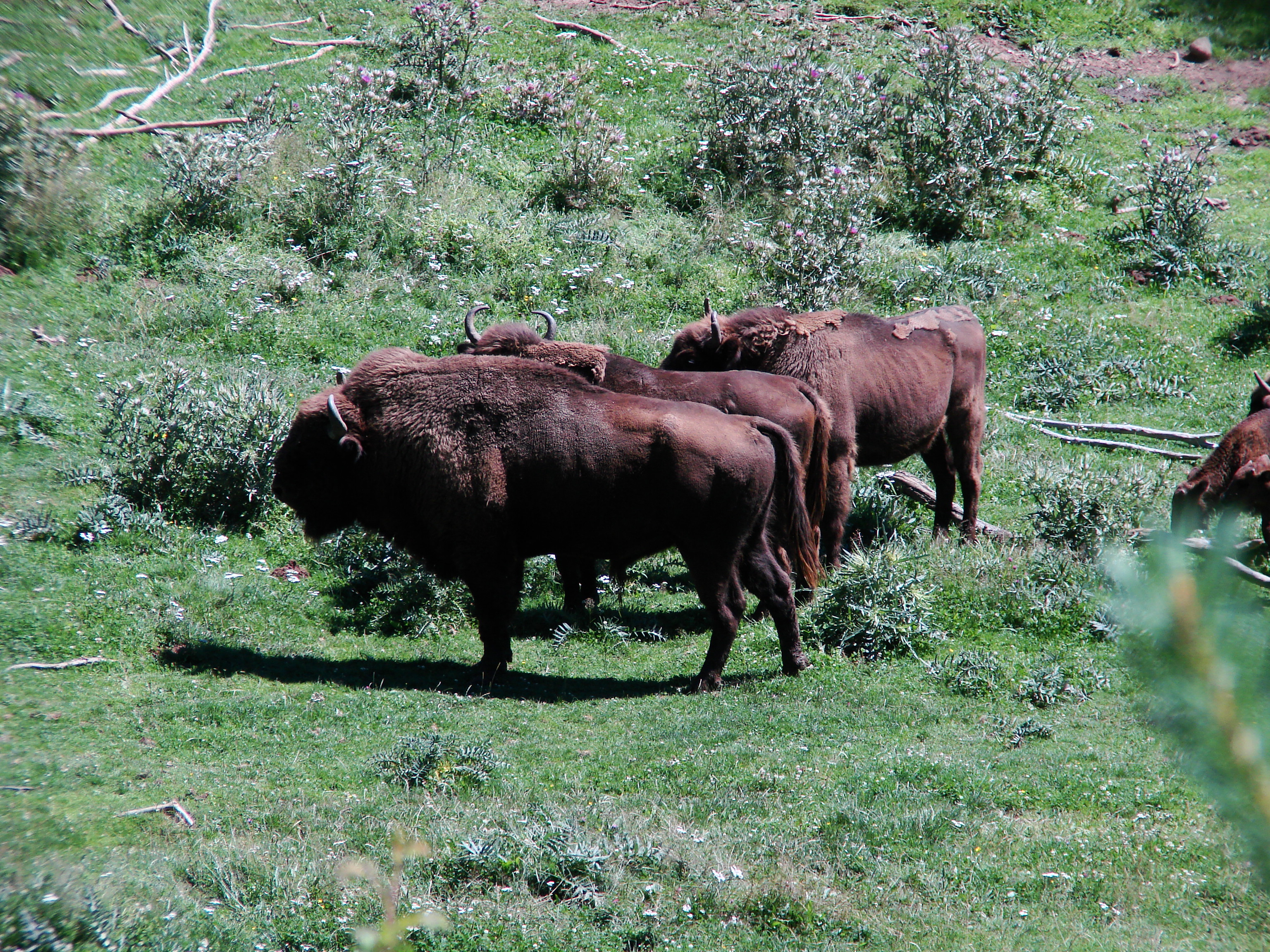 European bison